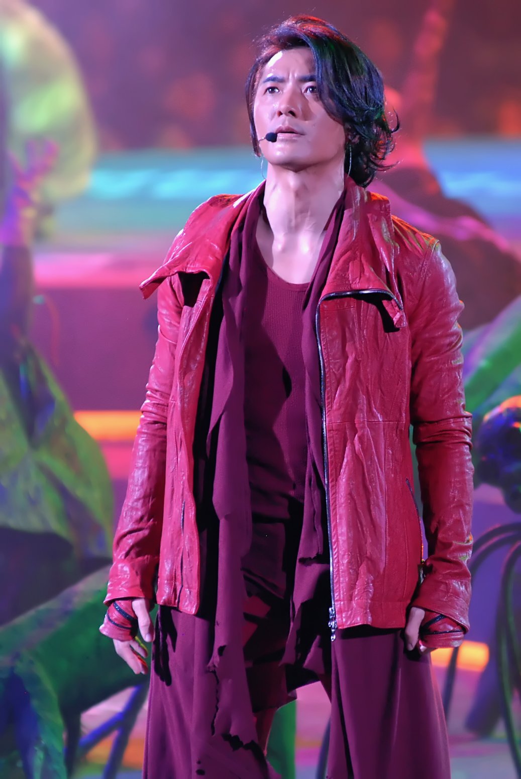 This photograph was taken at the Ekin Cheng Beautiful Day Concert 2011 on 5th March 2011 at the Hong Kong Coliseum